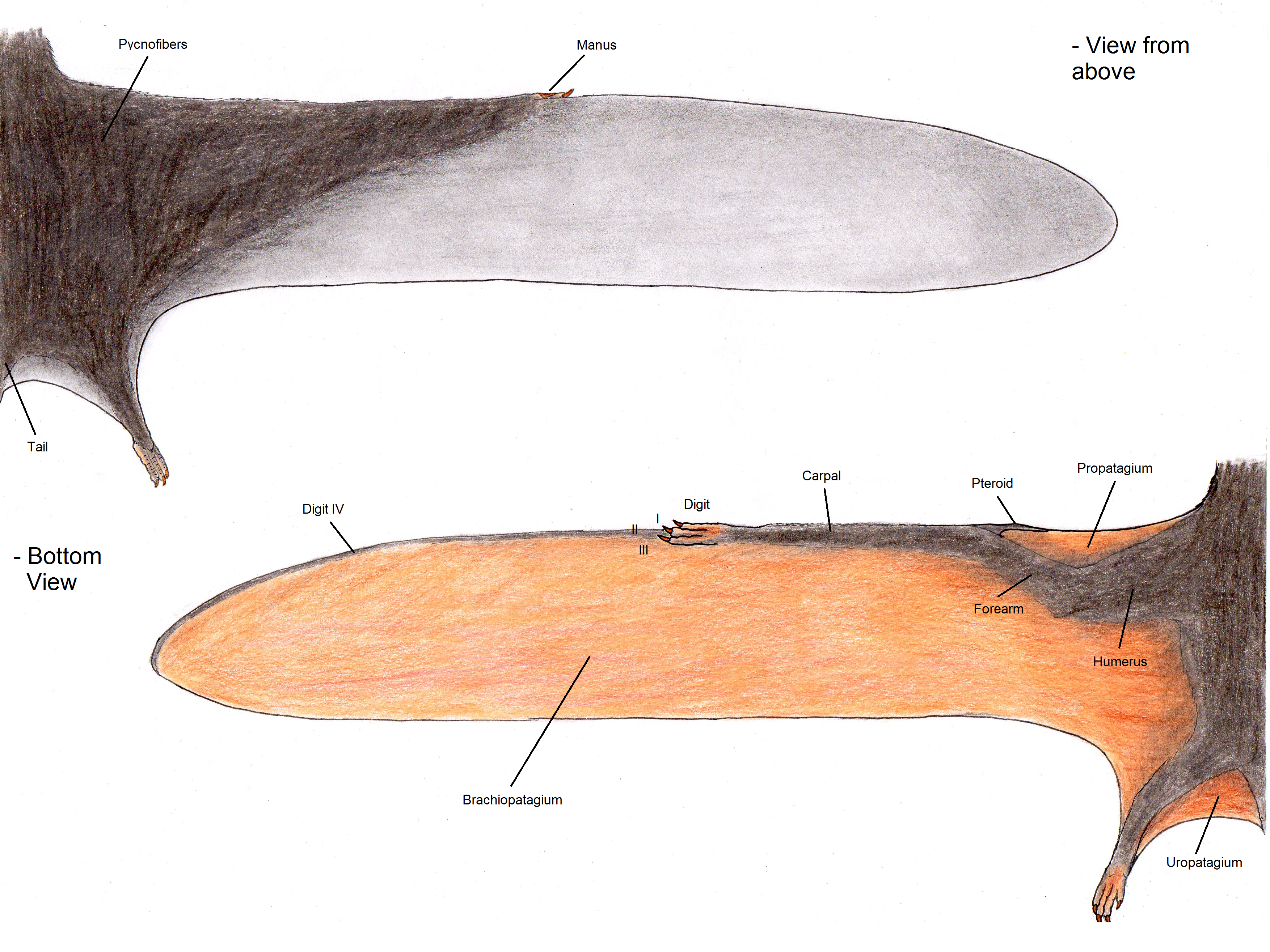 Pterosaur's wing anatomy